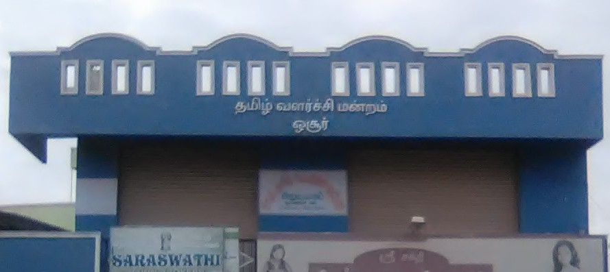 ஒசூர் தமிழ் வளர்ச்சி மன்ற கட்டடம்